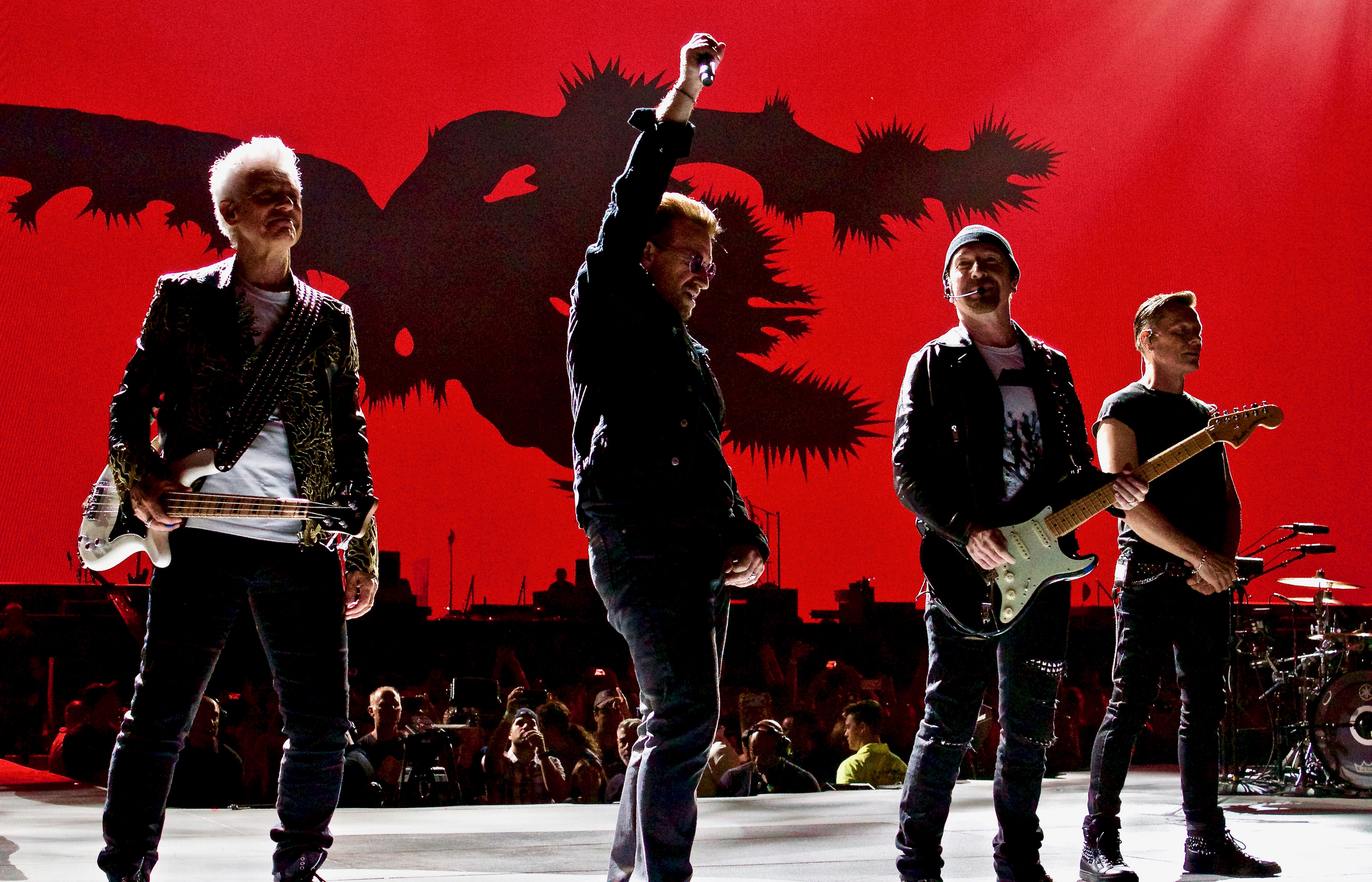 U2 standing on the B-stage preparing to take the main stage during a performance at Arrowhead Stadium in Kansas City, Missouri on September 12, 2017 during the Joshua Tree Tour 2017